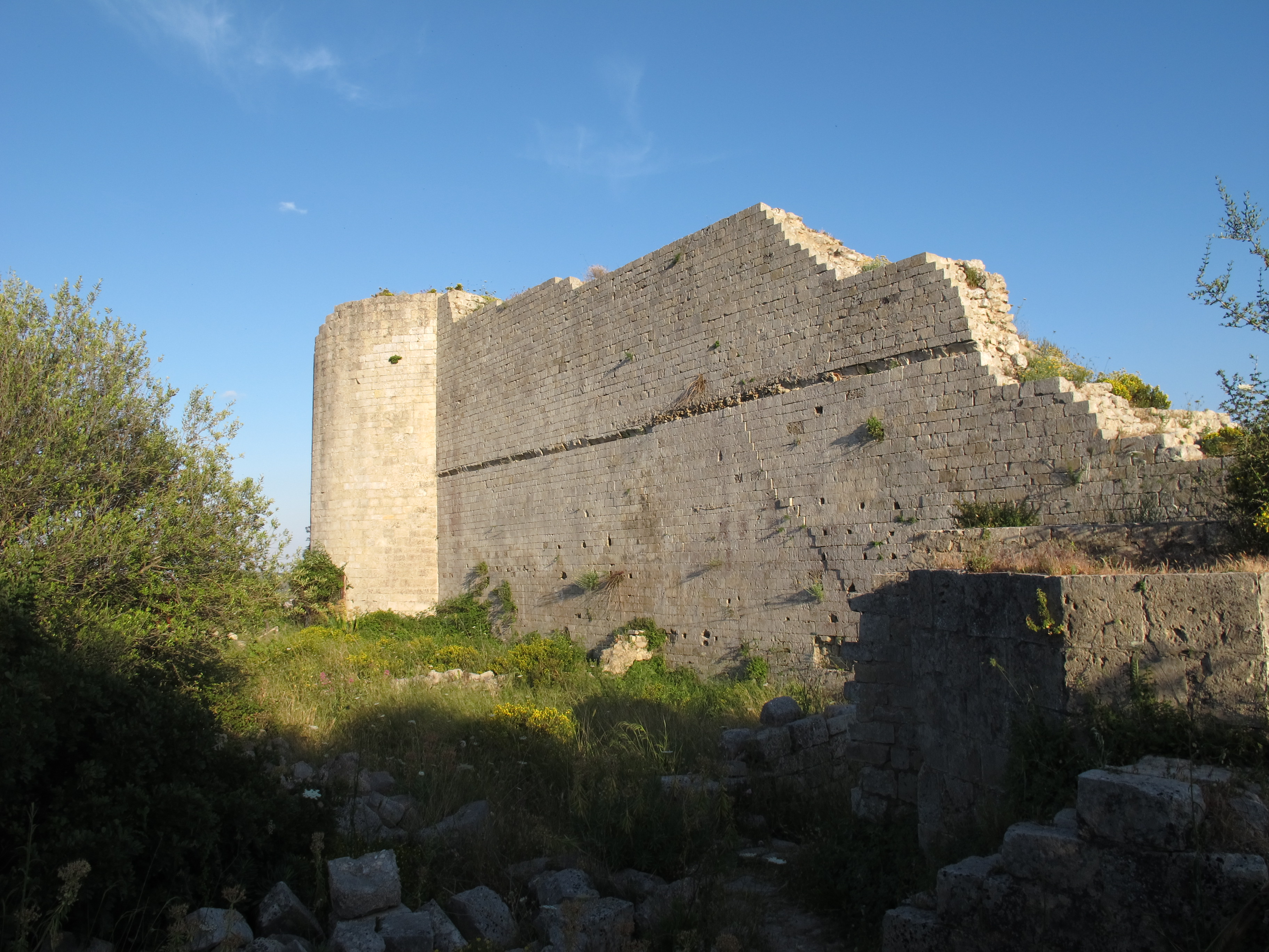 Remains of a Norman castle in Noto Antica, the site of the city destroyed in the 1693 earthquake